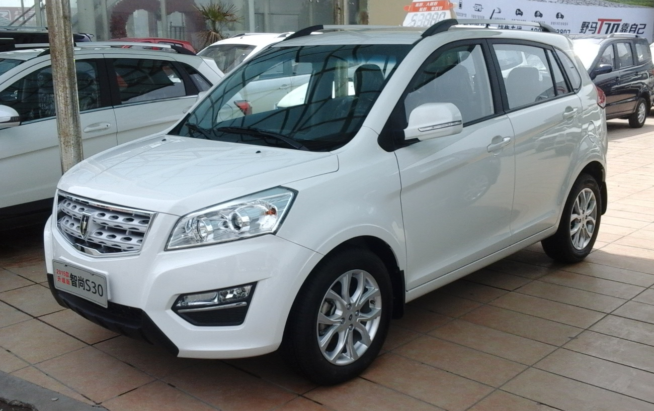 Jinbei S30 photographed in Xi'an, Shaanxi province, China.